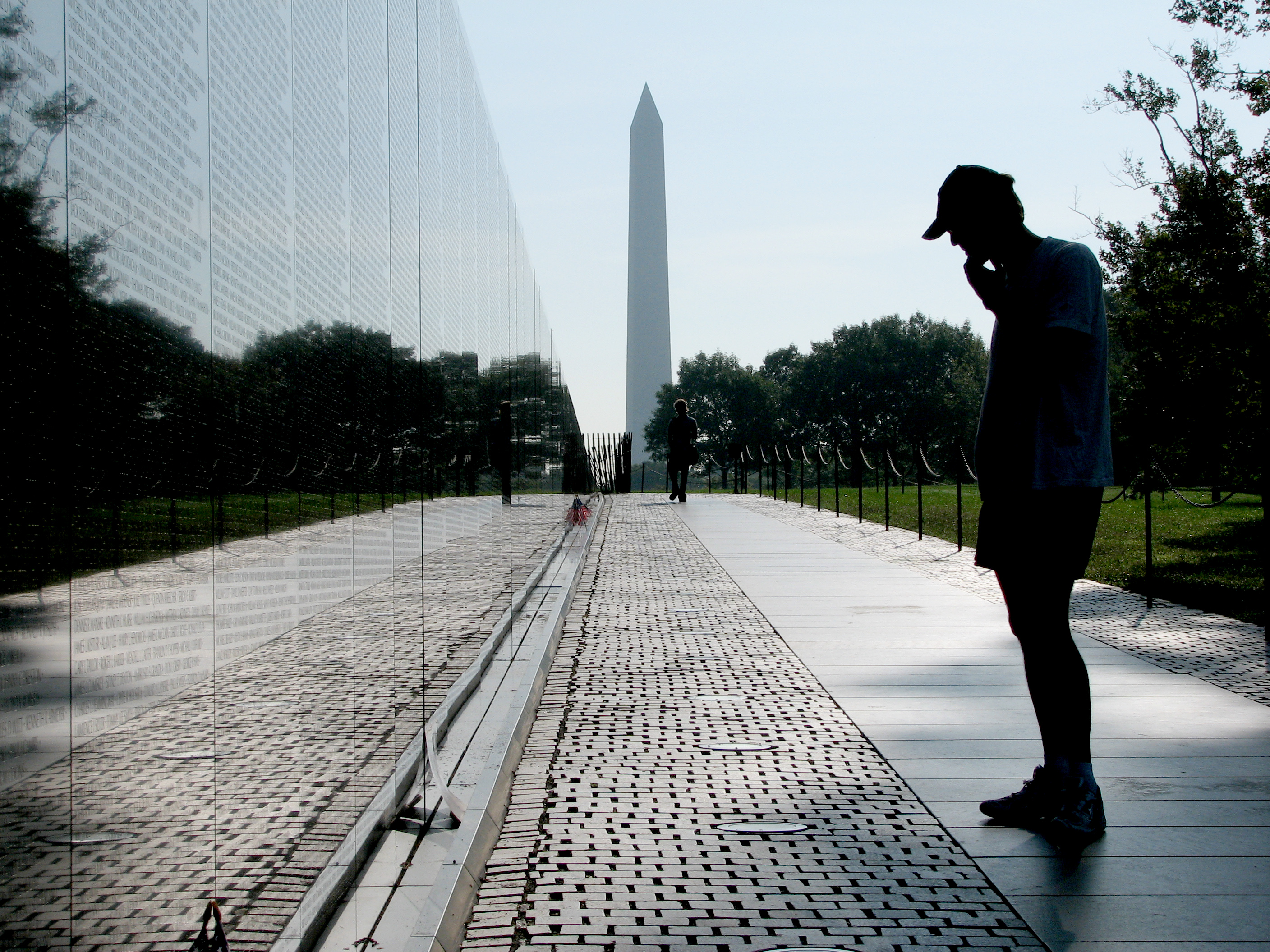 Vietnam Veterans Memorial in Washington, D.C.